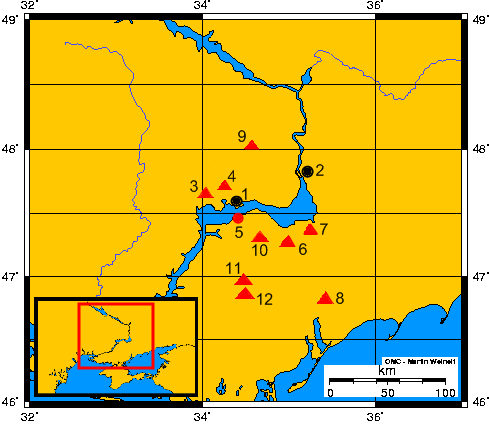 Ancient scythian town-capital Kamienskoje and so-called royal scytians kurgans on grounds of the Lower Dnieper